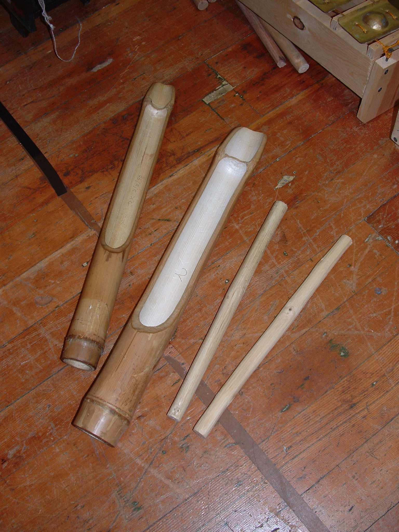 This is a Philippine slit drum made of hollowed out bamboo used in imitation of the real gonged agung. This agung a tamlang is used specifically by Master Danongan Kalanduyan to teach his kulintang class at San Francisco State University.